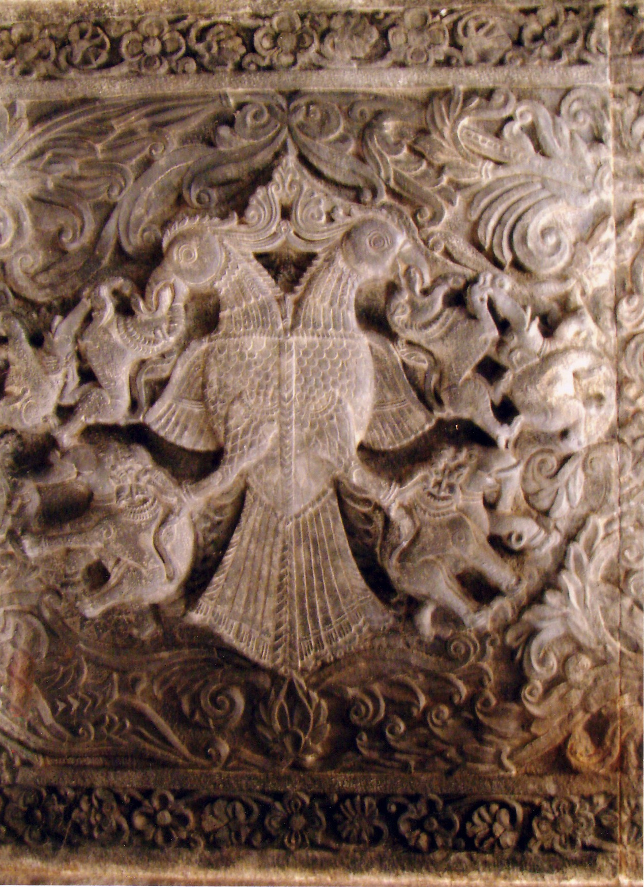 Photographed by self (Dineshkannambadi) in Keladi at Rameshwara temple, Shimoga district, Karnataka state, India in July 2006